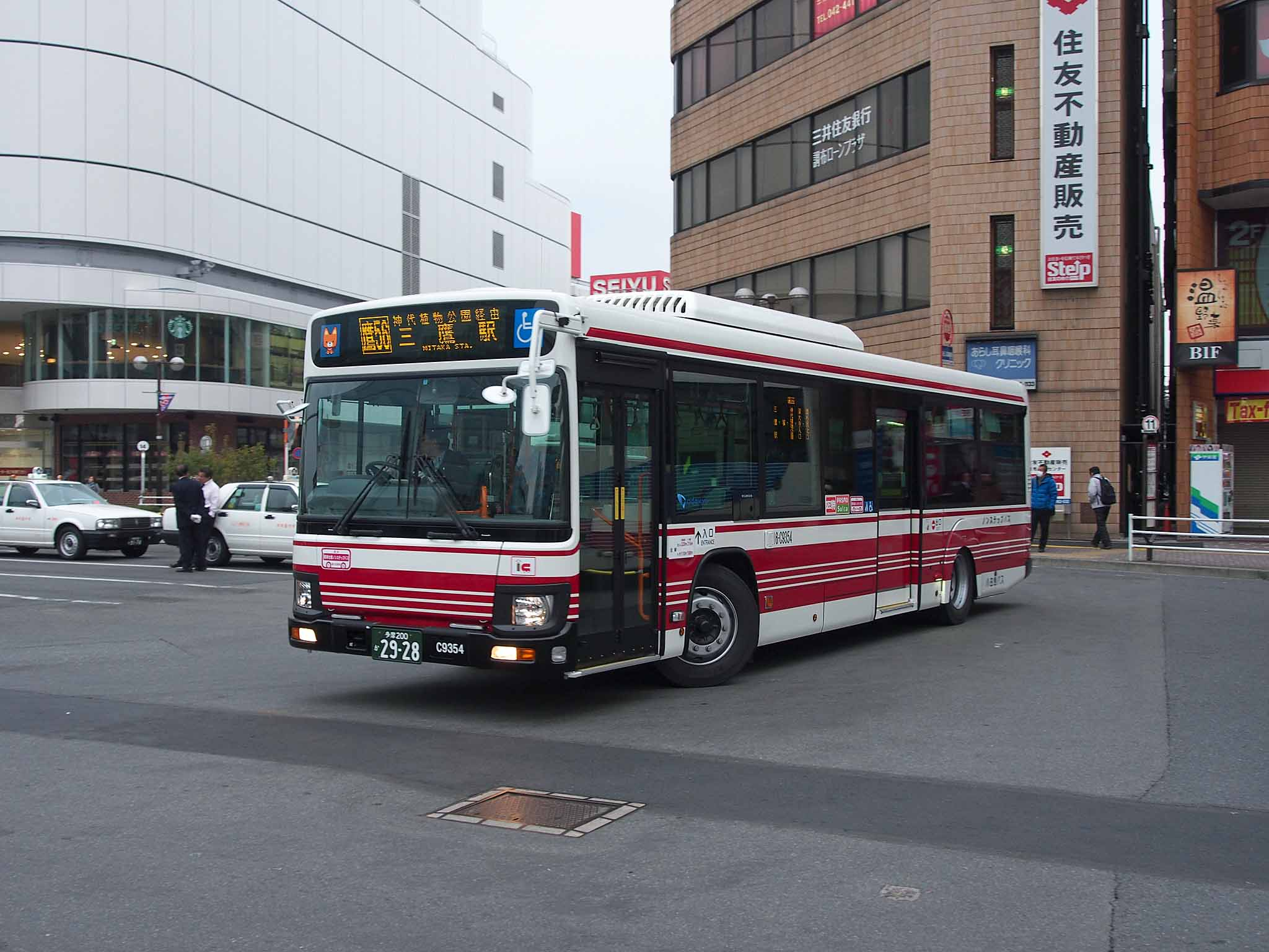 Fleet of Odakyu Bus. Model: Isuzu Erga QDG-LV290N1 License plate: TKT200 KA2928 Place: Chofu Station , Chofu City, Tokyo japan